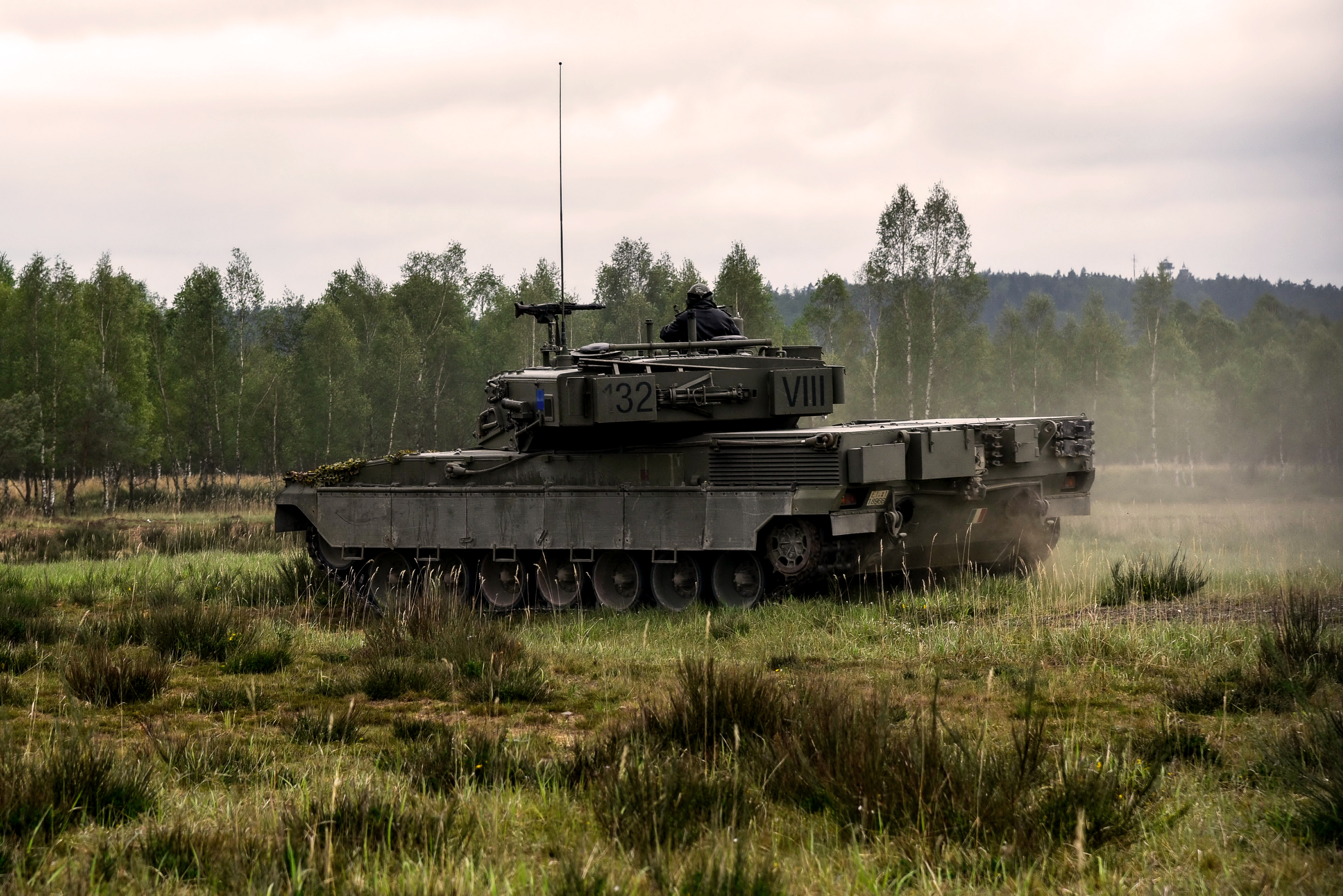 An Ariete Italian tank, moves to their battle position, during the Strong Europe Tank Challenge (SETC), at the 7th Army Joint Multinational Training Command’s Grafenwoehr Training Area, Grafenwoehr, Germany, May 12, 2016. The SETC is co-hosted by U.S. Army Europe and the German Bundeswehr, May 10-13, 2016. The competition is designed to foster military partnership while promoting NATO interoperability. Seven platoons from six NATO nations are competing in SETC - the first multinational tank challenge at Grafenwoehr in 25 years. For more photos, videos and stories from the Strong Europe Tank Challenge, go to (U.S. Army photo by Spc. Nathanael Mercado/Released)